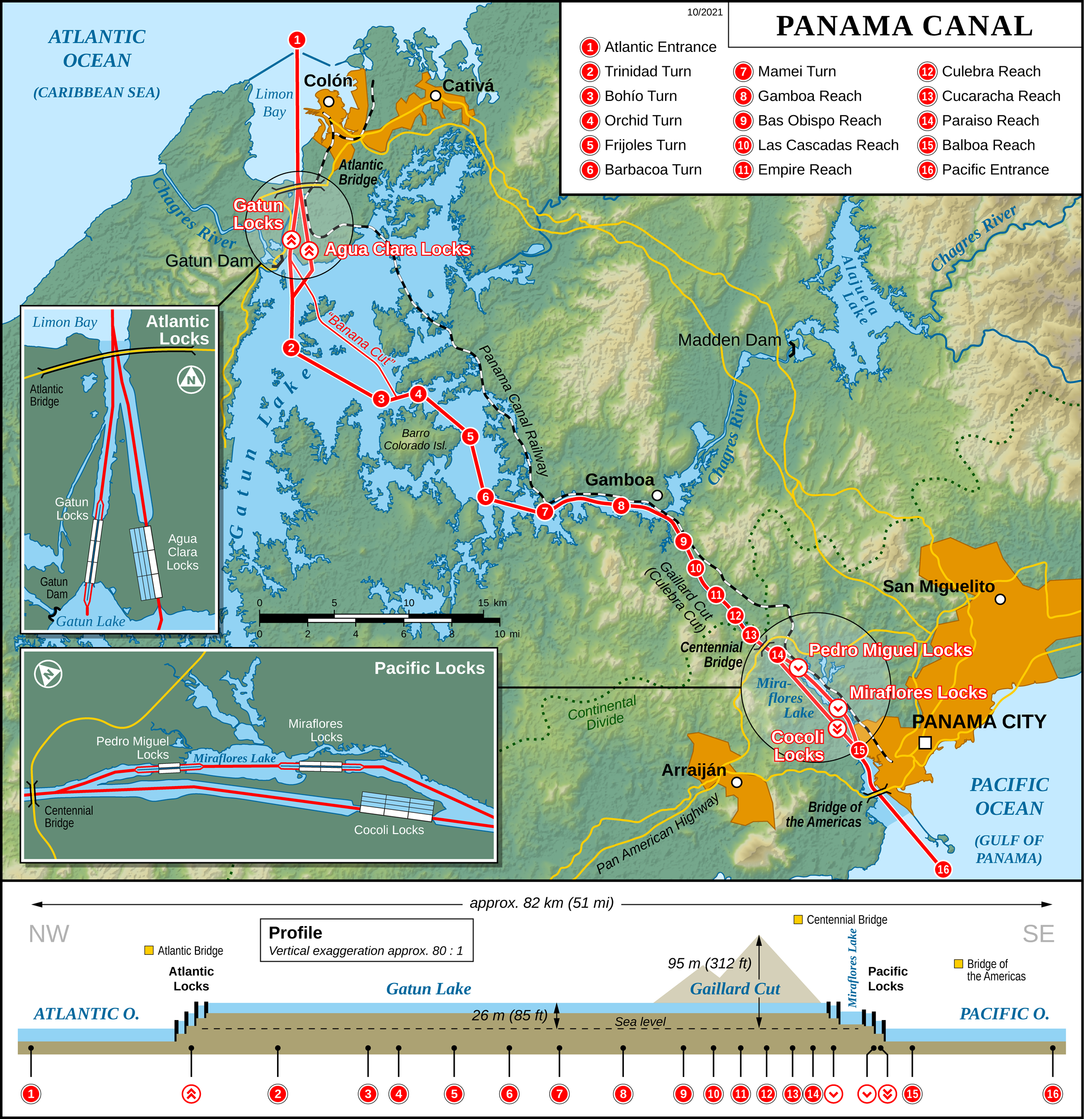 Map of the Panama Canal (English version)